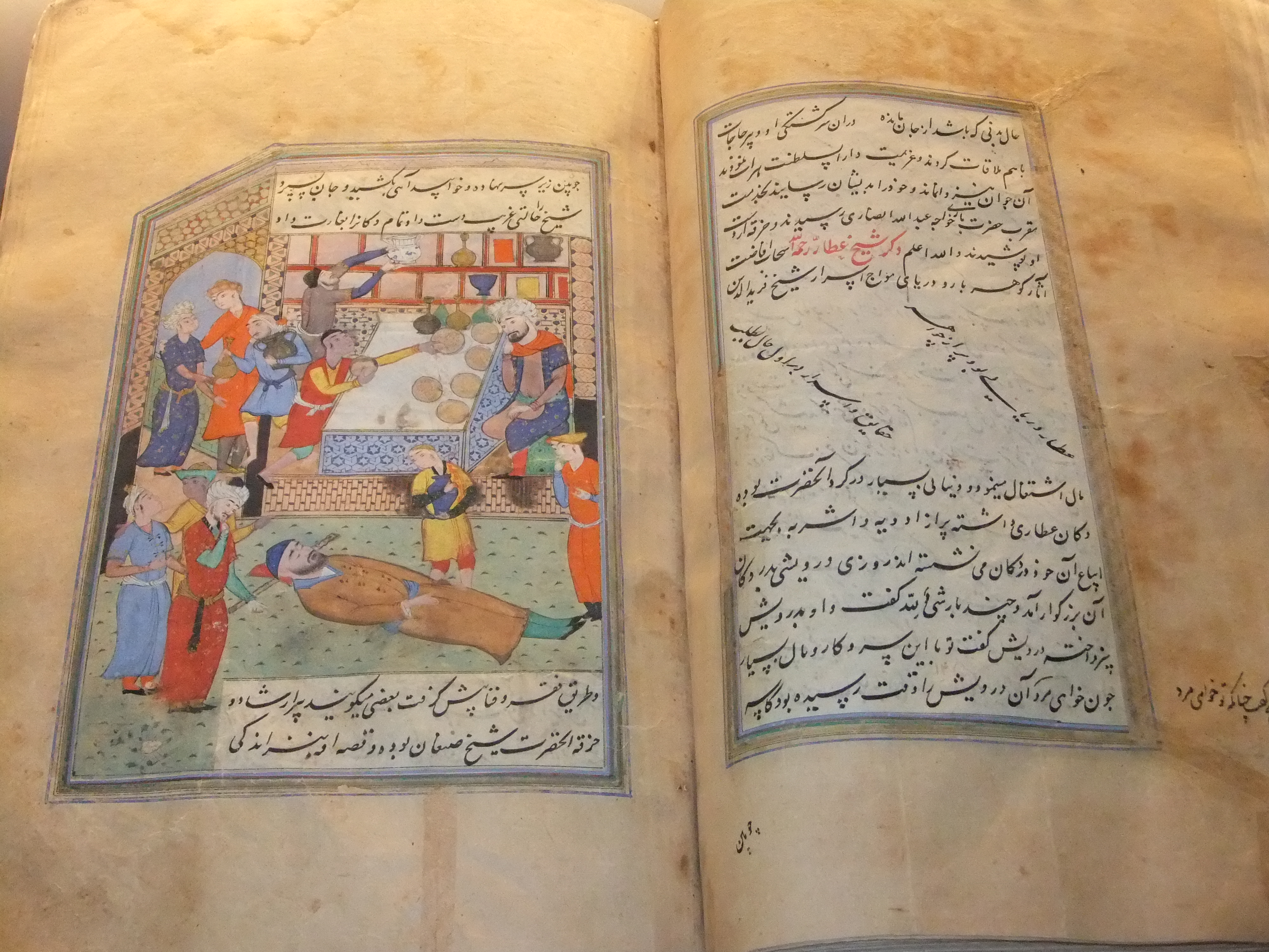 Farid Al Din Attar in Pergamon Museum